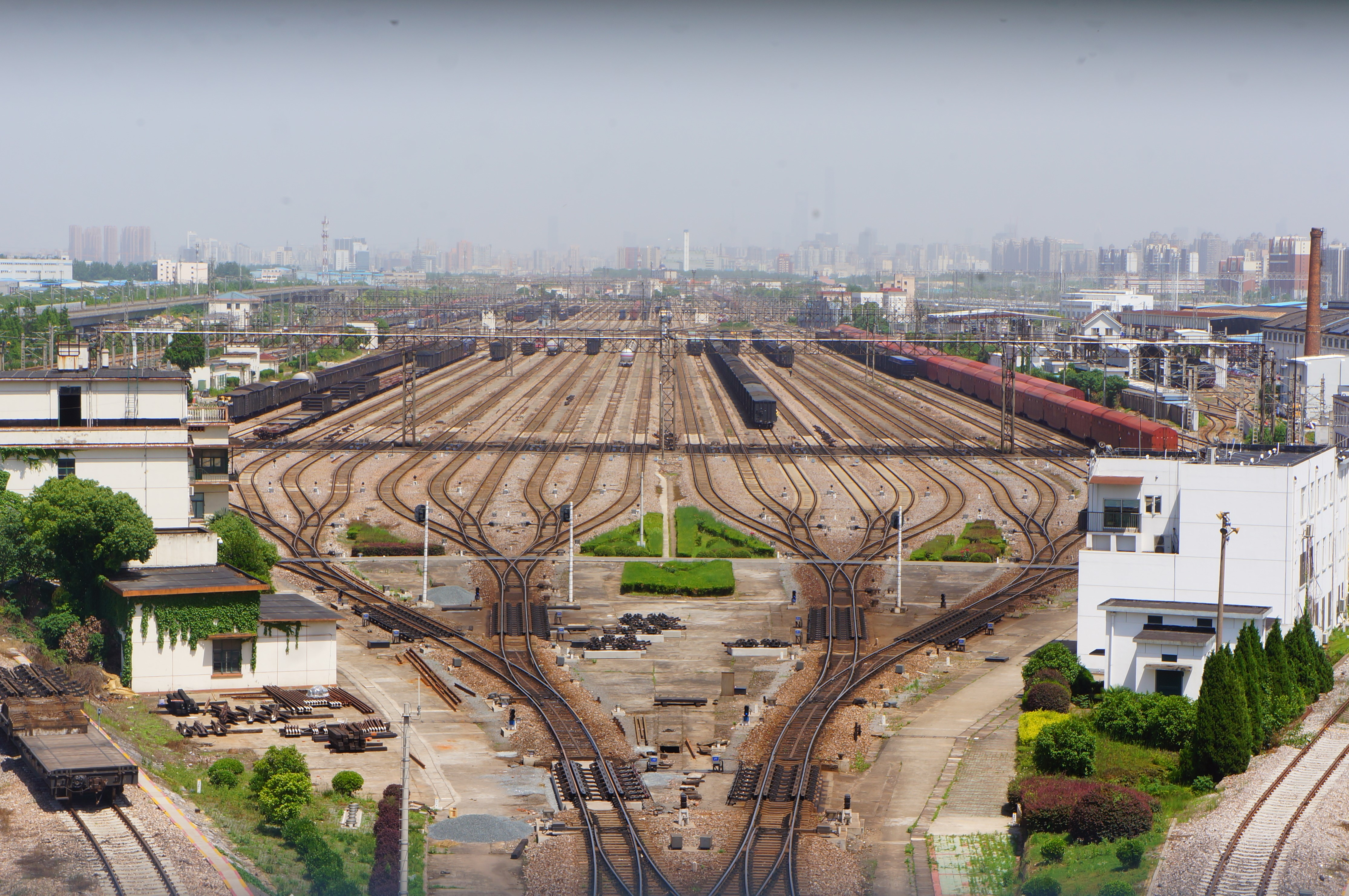 201805 Nanxiang Station Yard III (Outbound Classification Yard)